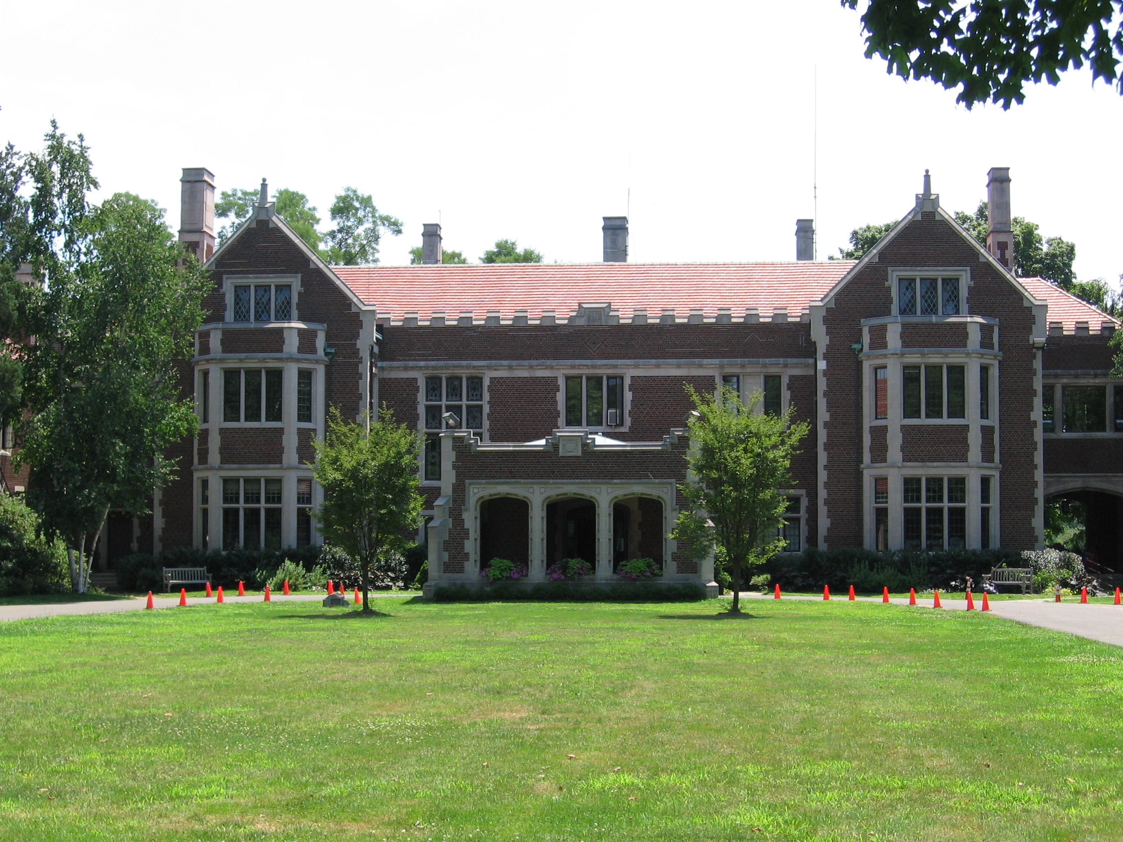 Waveny Mansion in Waveny Park, a public park in New Canaan, Connecticut. The front of the building (the north side) is shown.